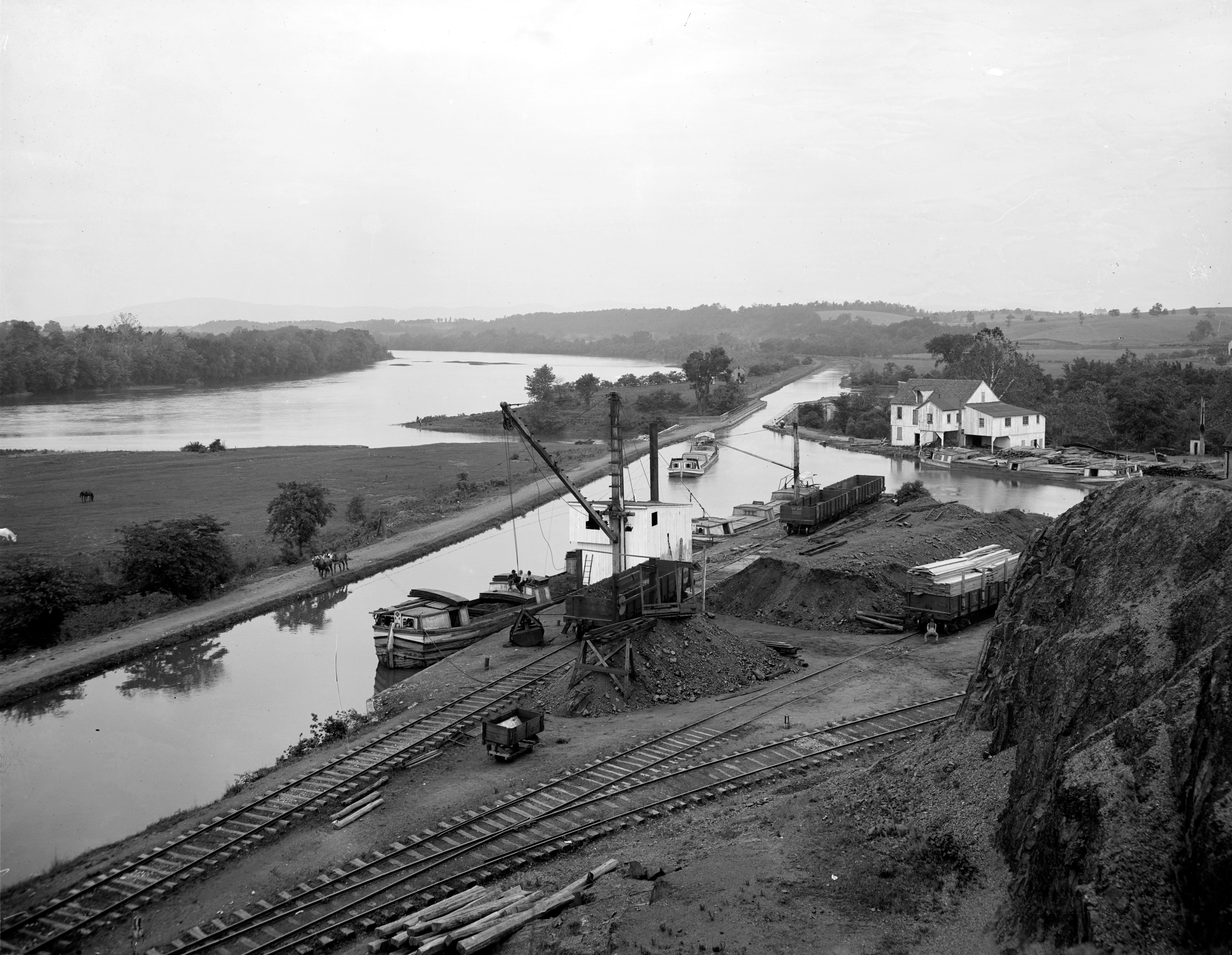 View of loading basin area of the Chesapeake and Ohio Canal at Williamsport, Maryland, USA. Looking northwest (upstream). This site was the western terminus of the Western Maryland Railroad from 1873 until 1906, when the main rail line was extended west to Cumberland, Maryland; subsequently Williamsport became a branch line. Rail cars are being loaded with coal and lumber. The Potomac River is seen on the left. Just beyond the loading basin, the canal passes through an aqueduct (built 1834) over Conococheague Creek.